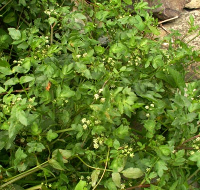 Helosciadium nodiflorum Author: Augustin Roche Source : [1]